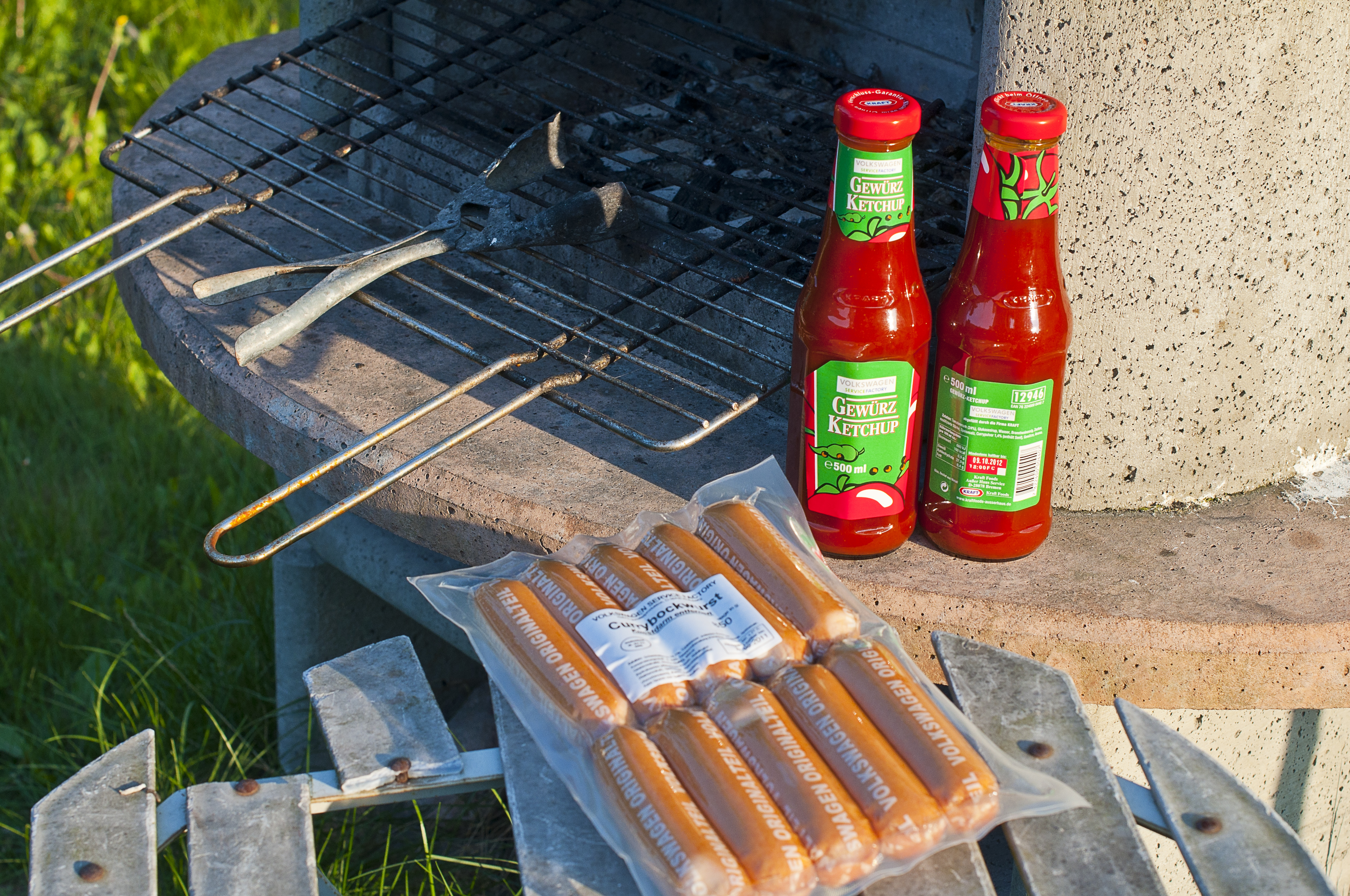 Original Sausage and Ketchup from Volkswagen Wolfsburg